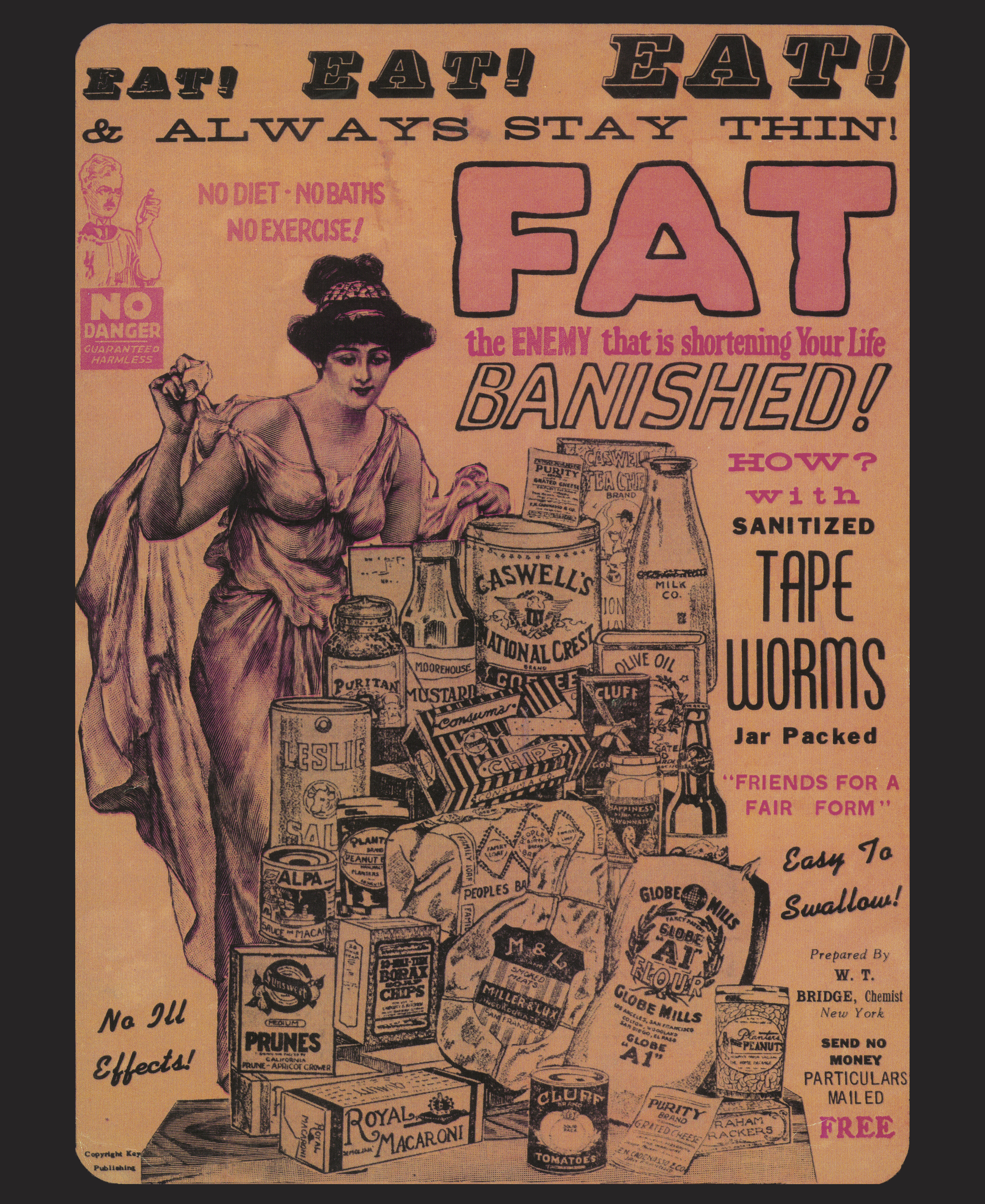 Tapeworms fad diet ad In the perennial battle of will over weight, consumers were finally offered an effective means of weight reduction around the turn of the 20th century – tapeworms! Fortunately, this “easily swallowed,” “sanitized,” and “jar packed” product proved ineffective. For more information about FDA history visit